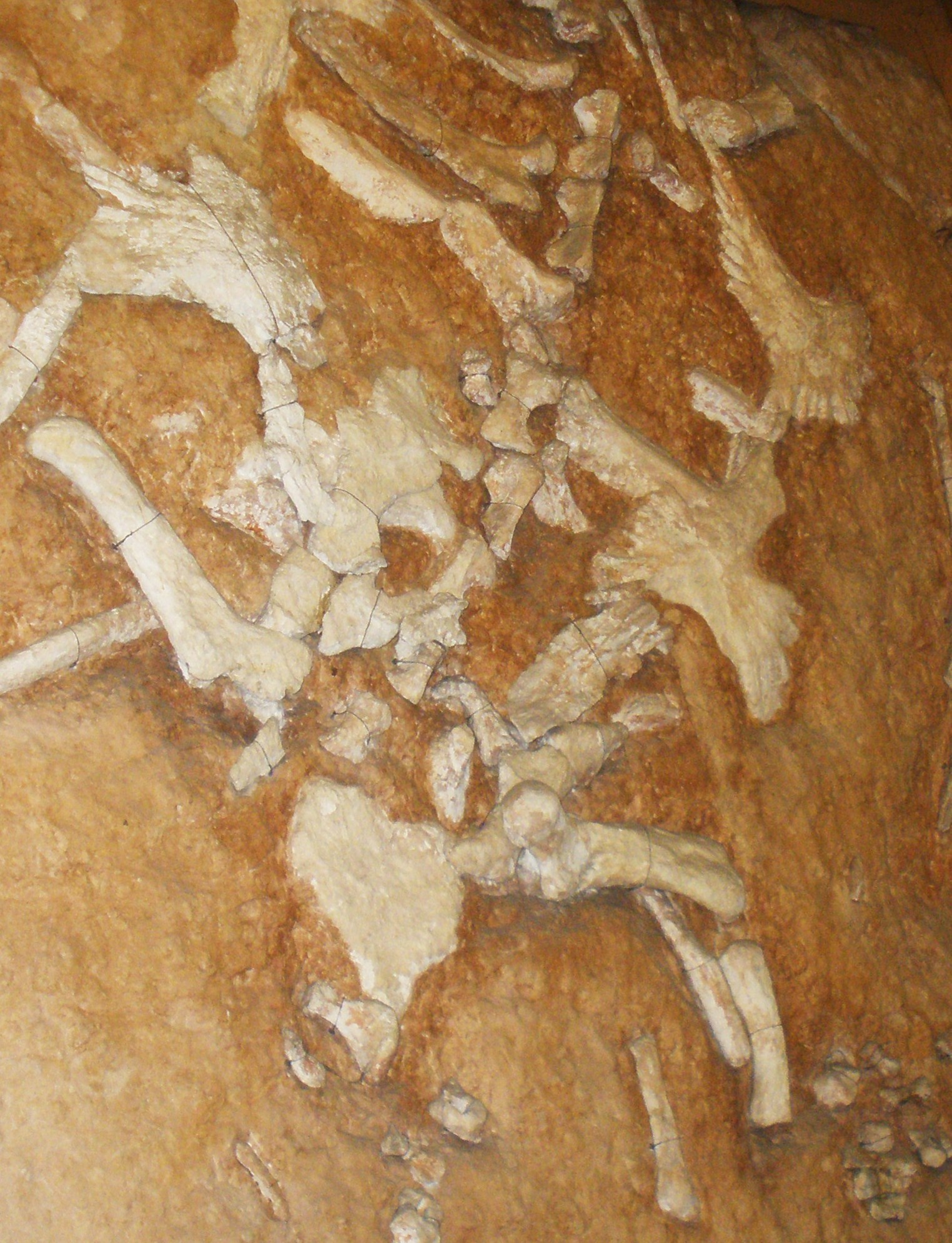 Fossil of Protosphargis veronensis, an extinct turtle